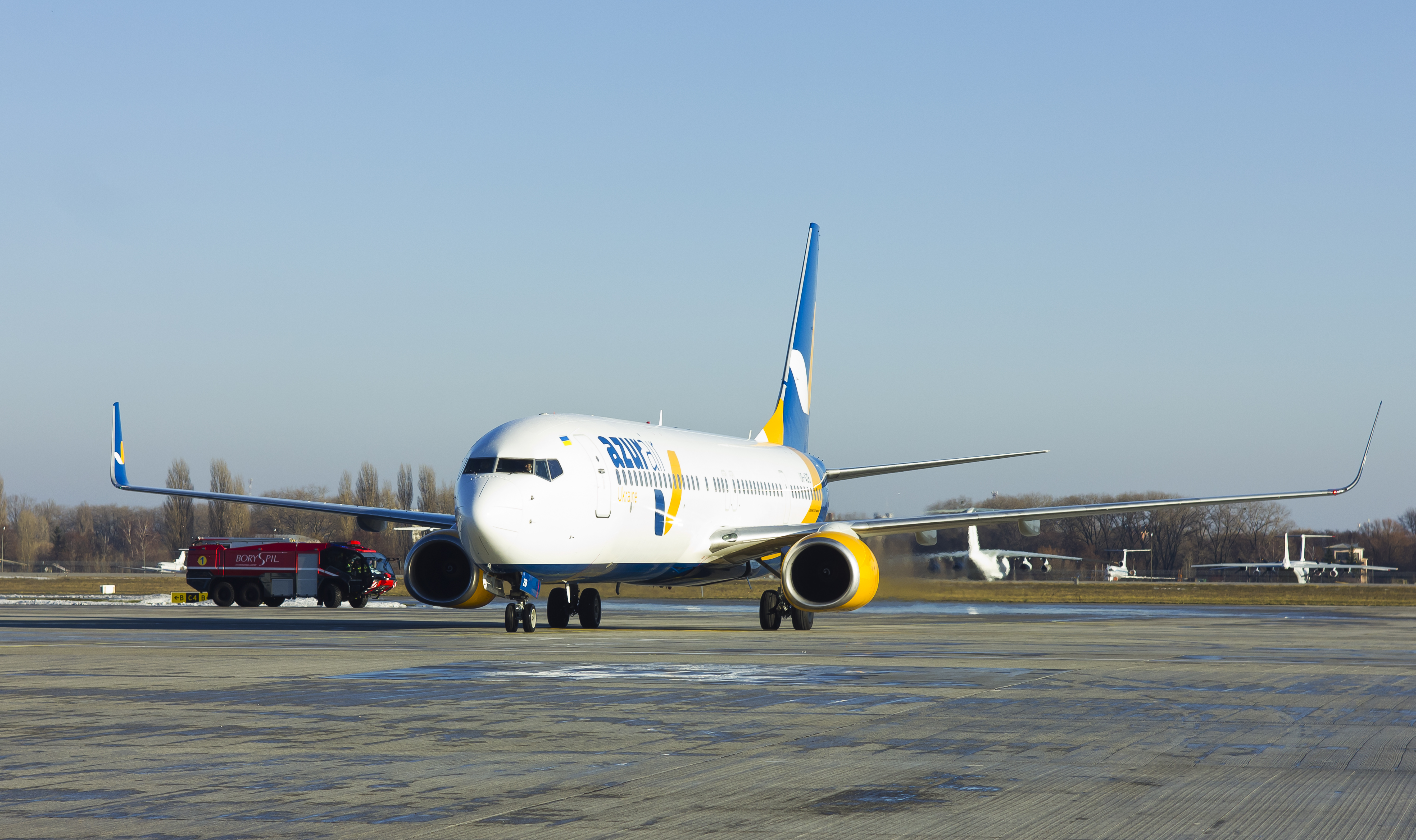 Boeing 737-900 UR-AZB in Boryspil, Kyiv.